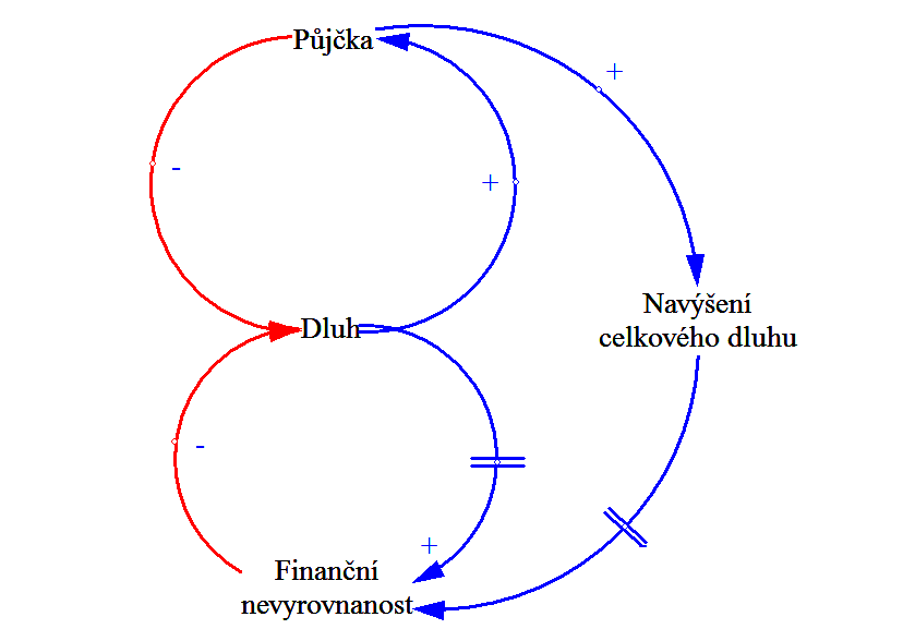 Archetyp přesun břemene - finanční dluh